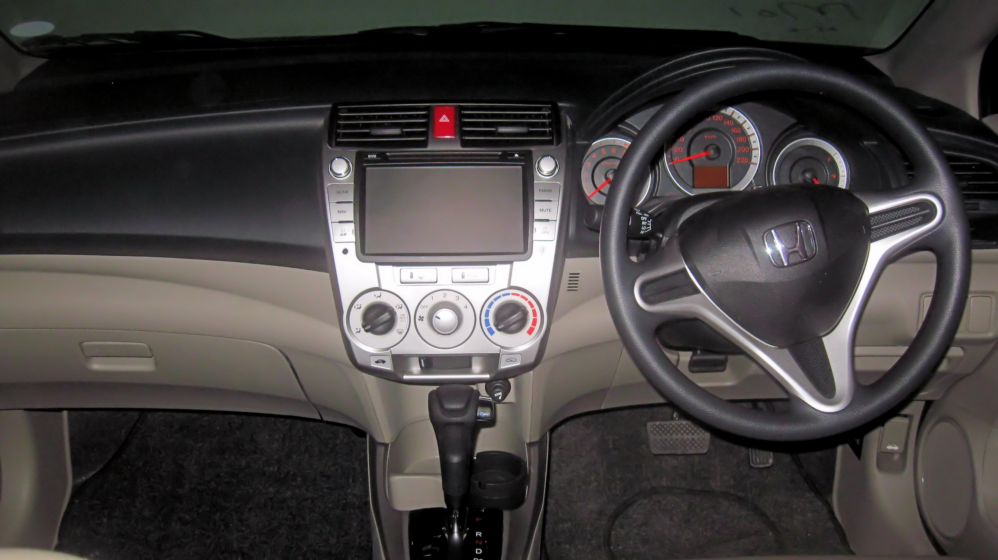 The interior of the Pakistani 1.5L i-VTEC Prosmatic City Aspire